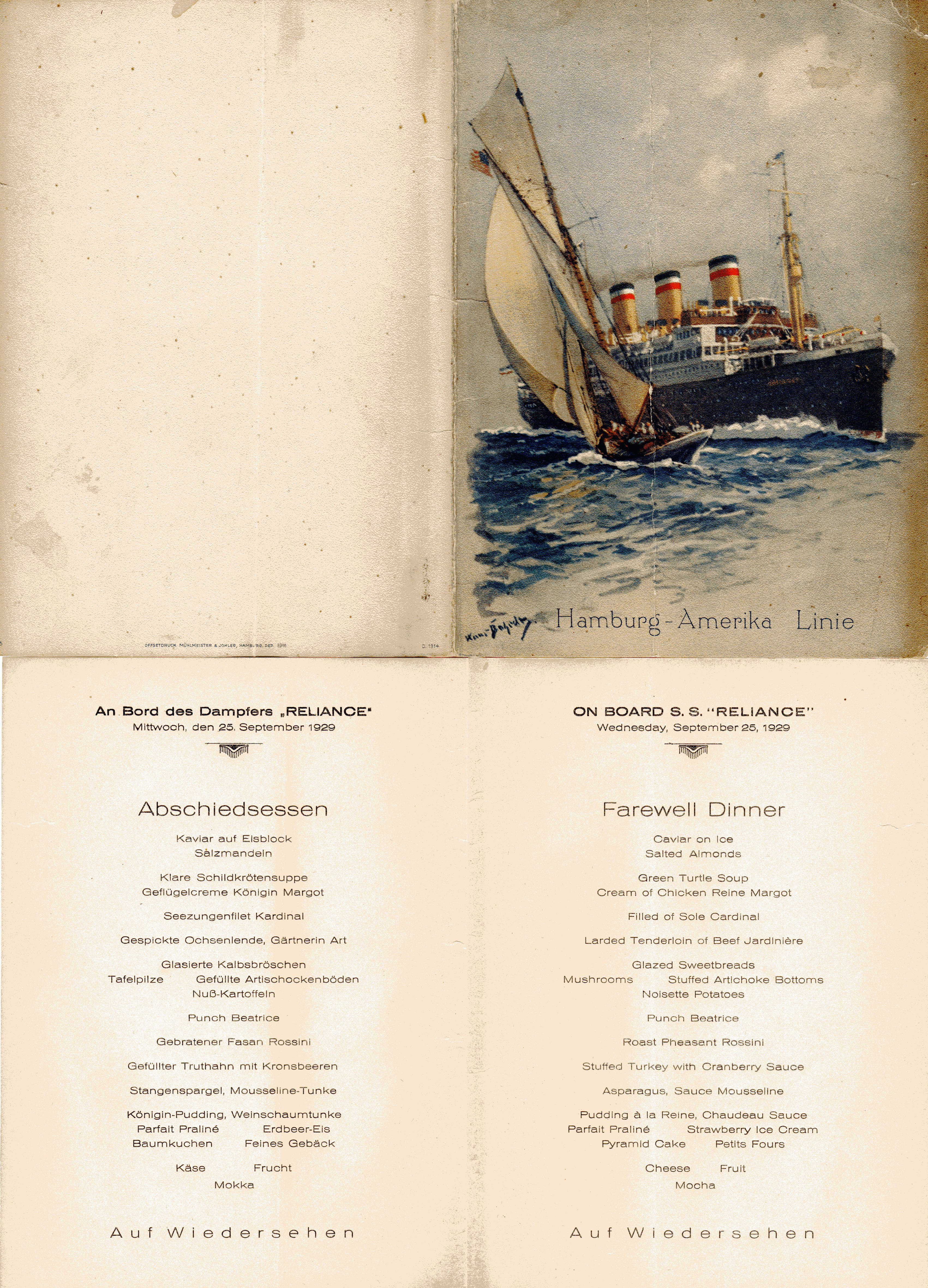 Menu of the Farewell Dinner on board S.S. RELIANCE at the 25. September 1929